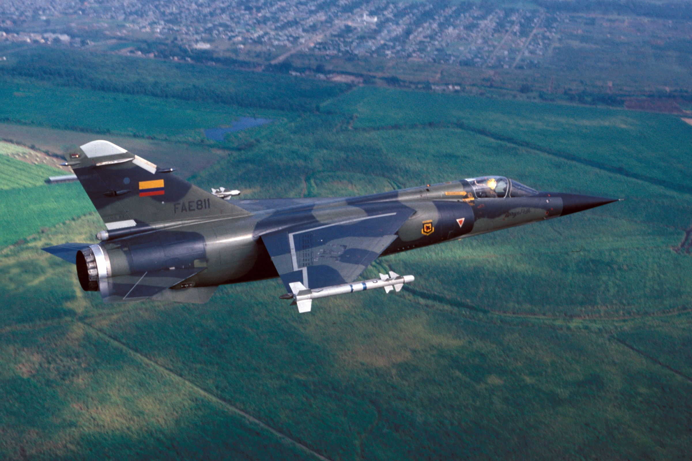 An Ecuadoran Mirage F.1JA aircraft (s/n FAE811) during the joint US/Ecuadoran exercise "Blue Horizon '86". The Mirage is armed with Matra R550 Magic 2 air-to-air missiles.